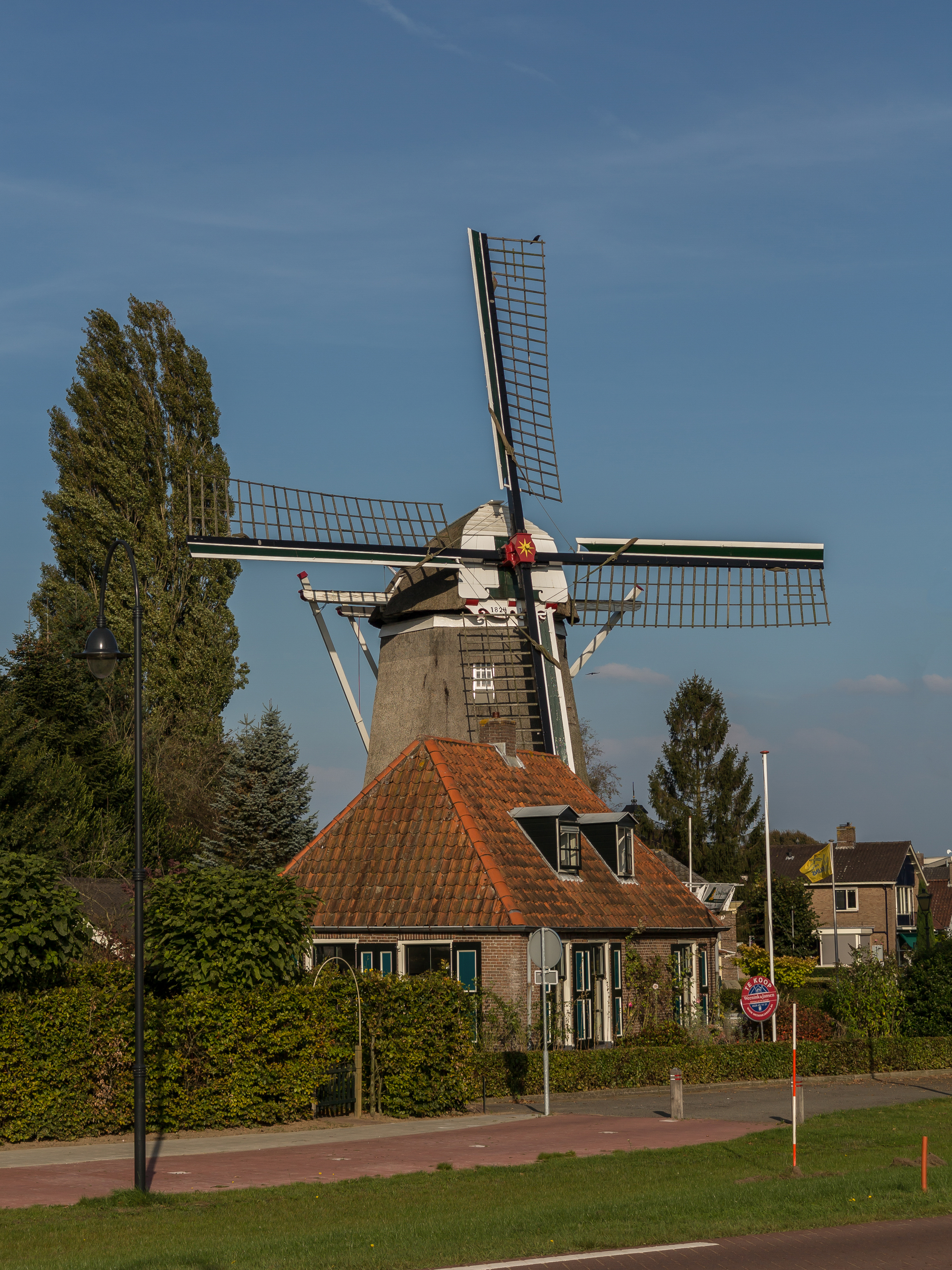 Ommen, windmill: de molen op Den Oordt